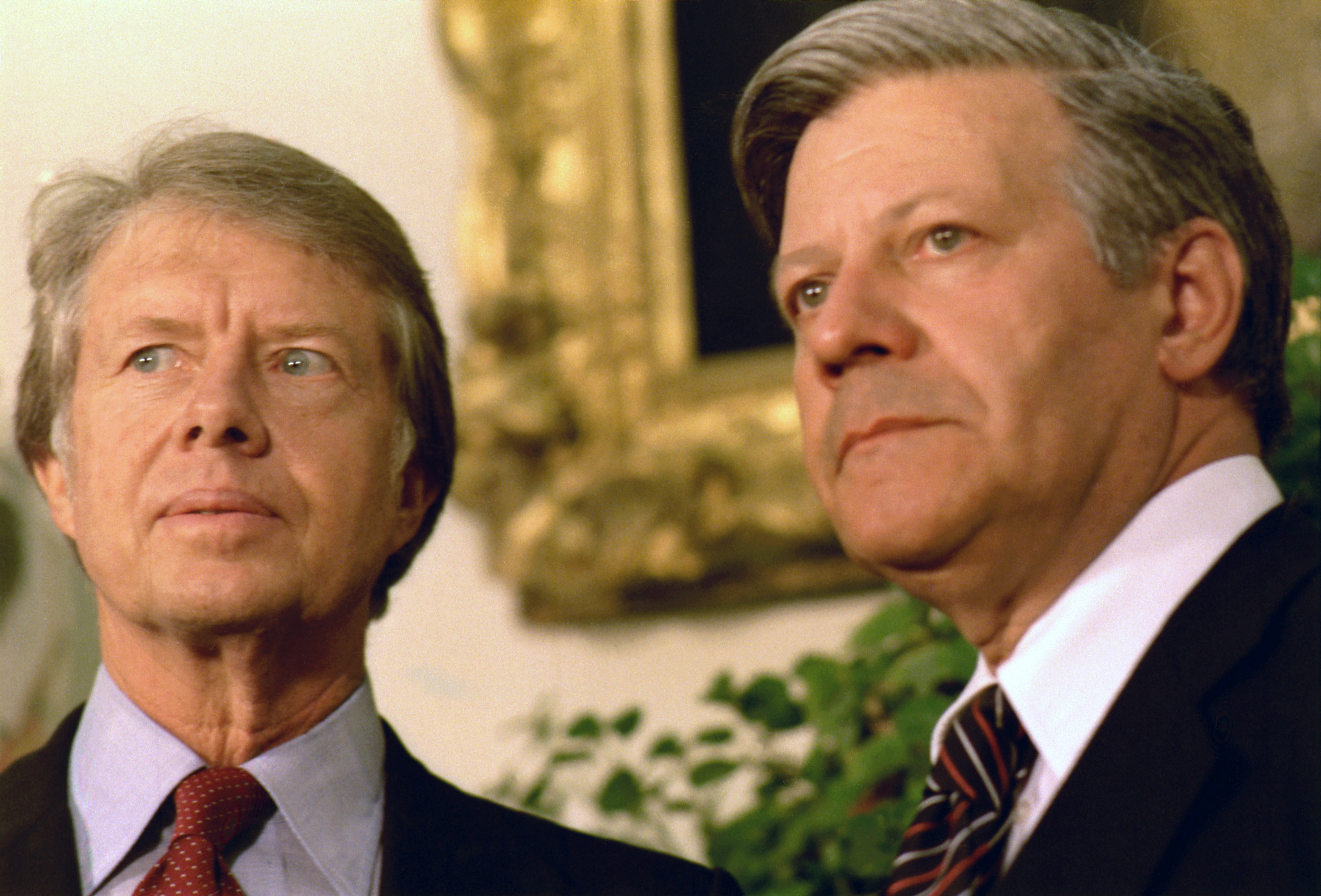 Close up of U.S. President Jimmy Carter and German Chancellor Helmut Schmidt., 07/13/1977